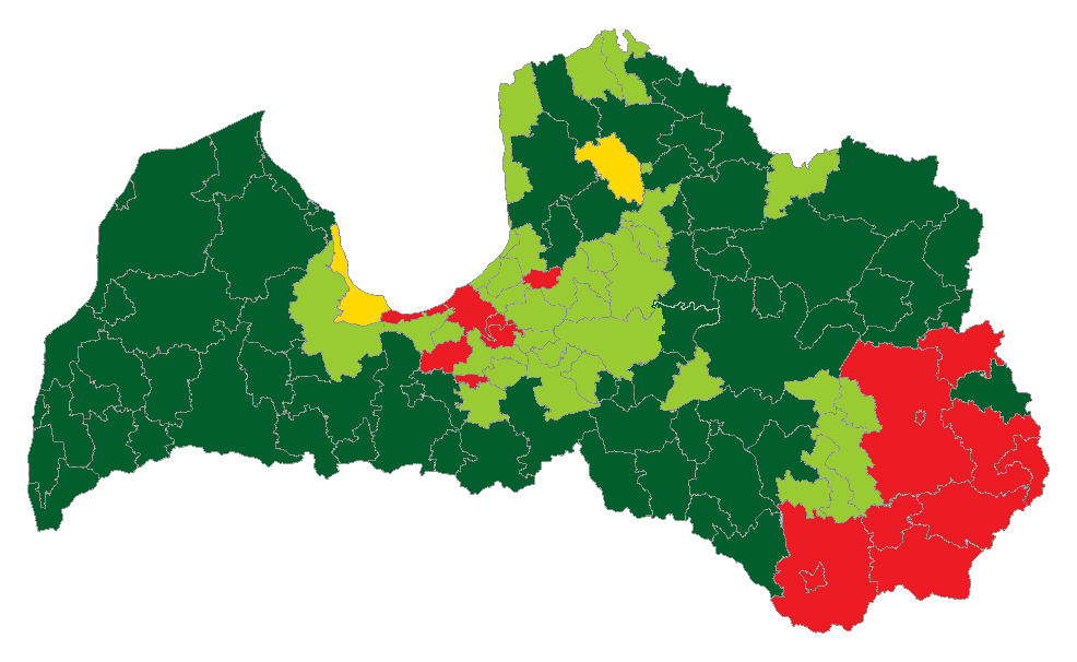 Map of the 12th Saeima election with winner party of each municipality and Republican city